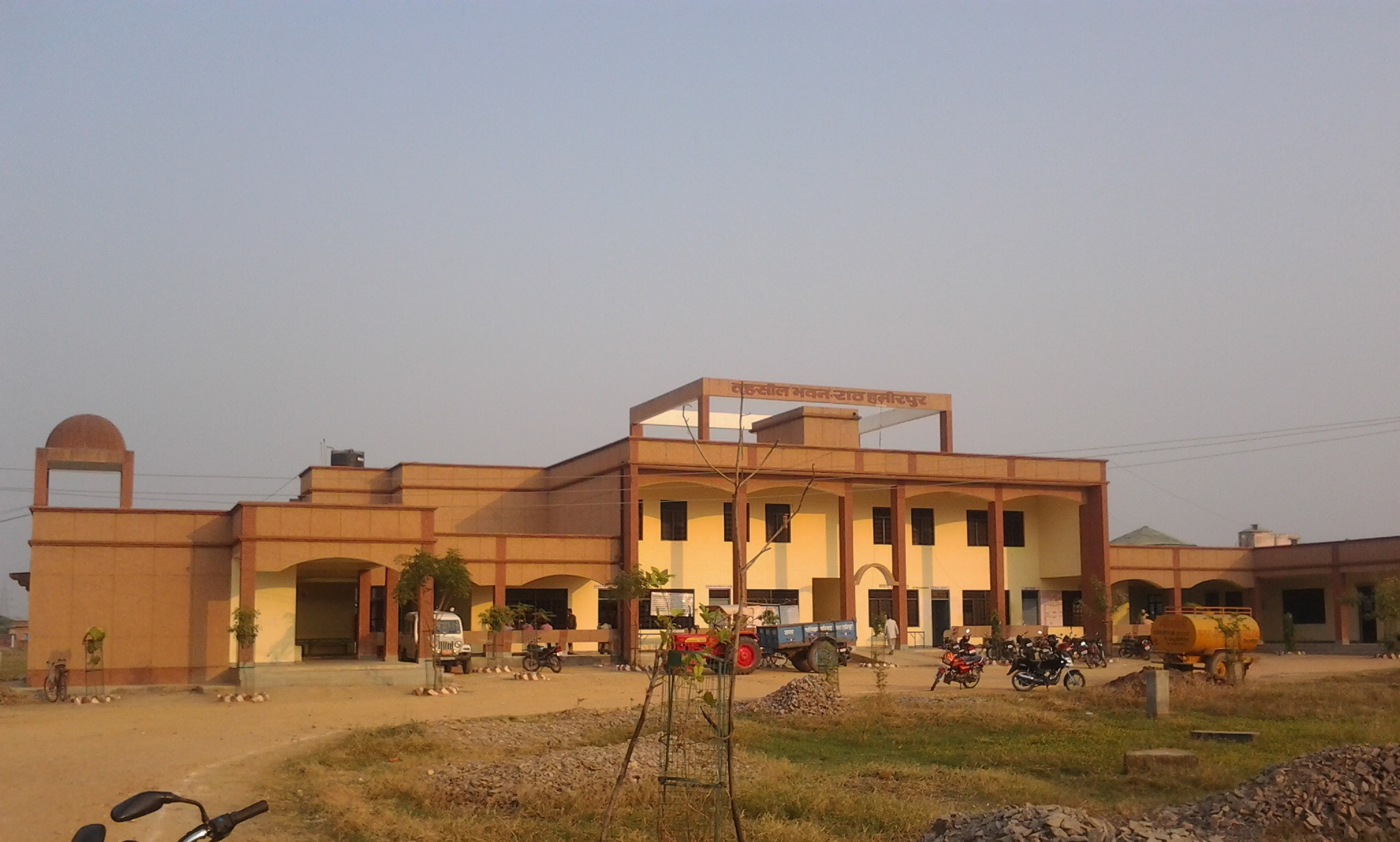 it is the tehsil admistration rath